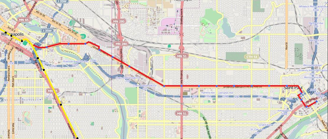 This map may be incomplete, and may contain errors. Don't rely solely on it for navigation.